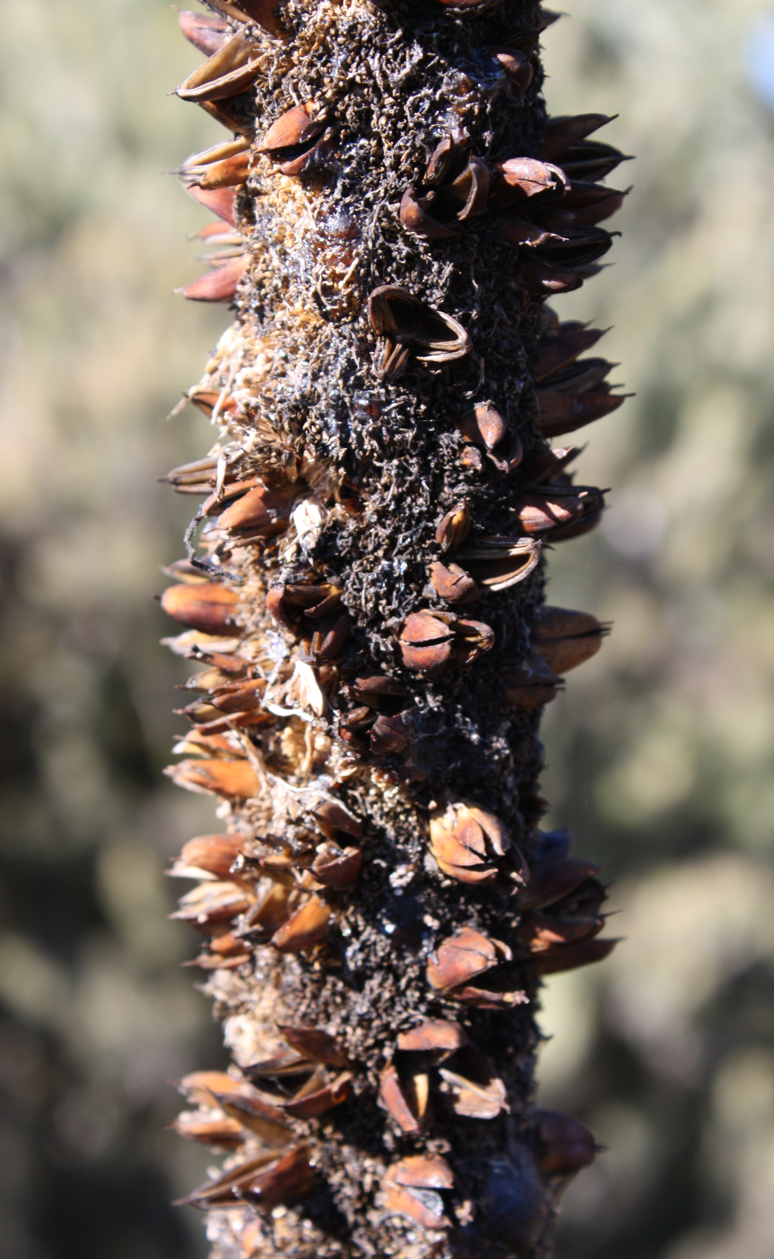 Closeup of a Xanthorrhoea preissii flower spike. Photo taken at Wireless Hill Park, Perth, Western Australia